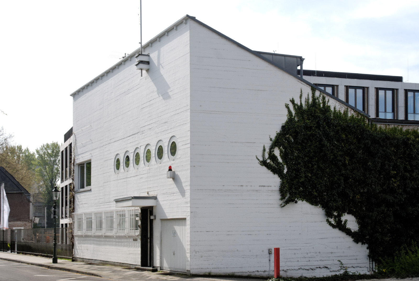 House Emmericher Straße 28 in Düsseldorf-Golzheim, Germany